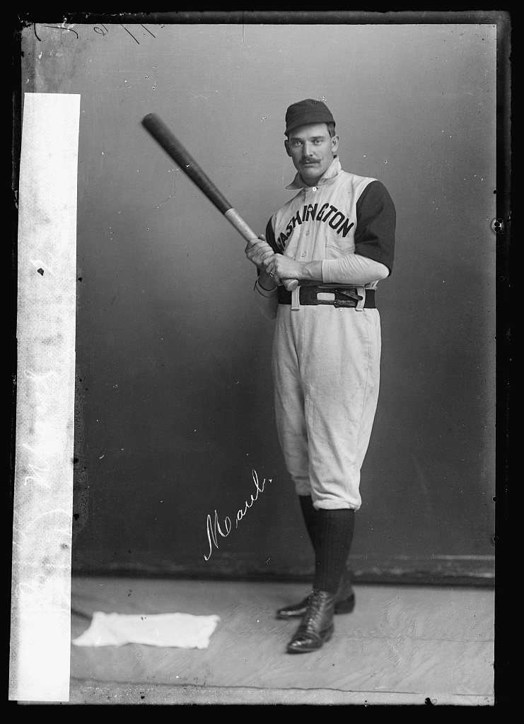 Albert Maul from C. M. Bell's Studio with bat